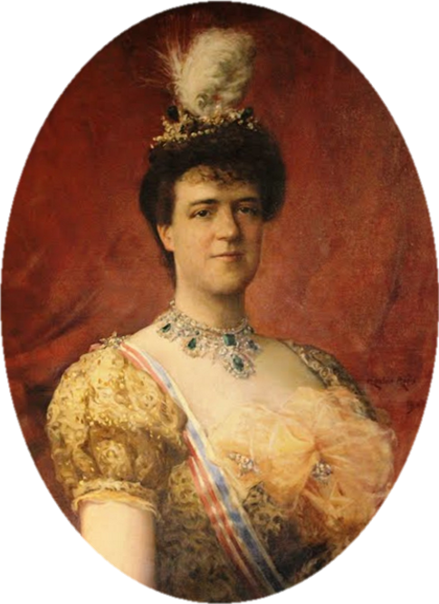 Portrait of Amélie d'Órléans, Queen of Portugal, by Carlos Reis. Currently in the Pena Palace, Sintra, Portugal.